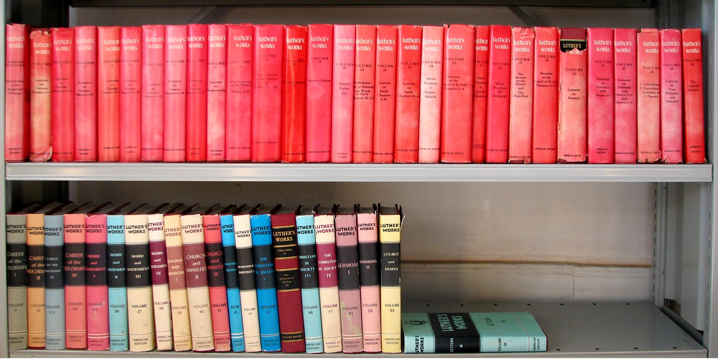 Luther's Works, American edition.